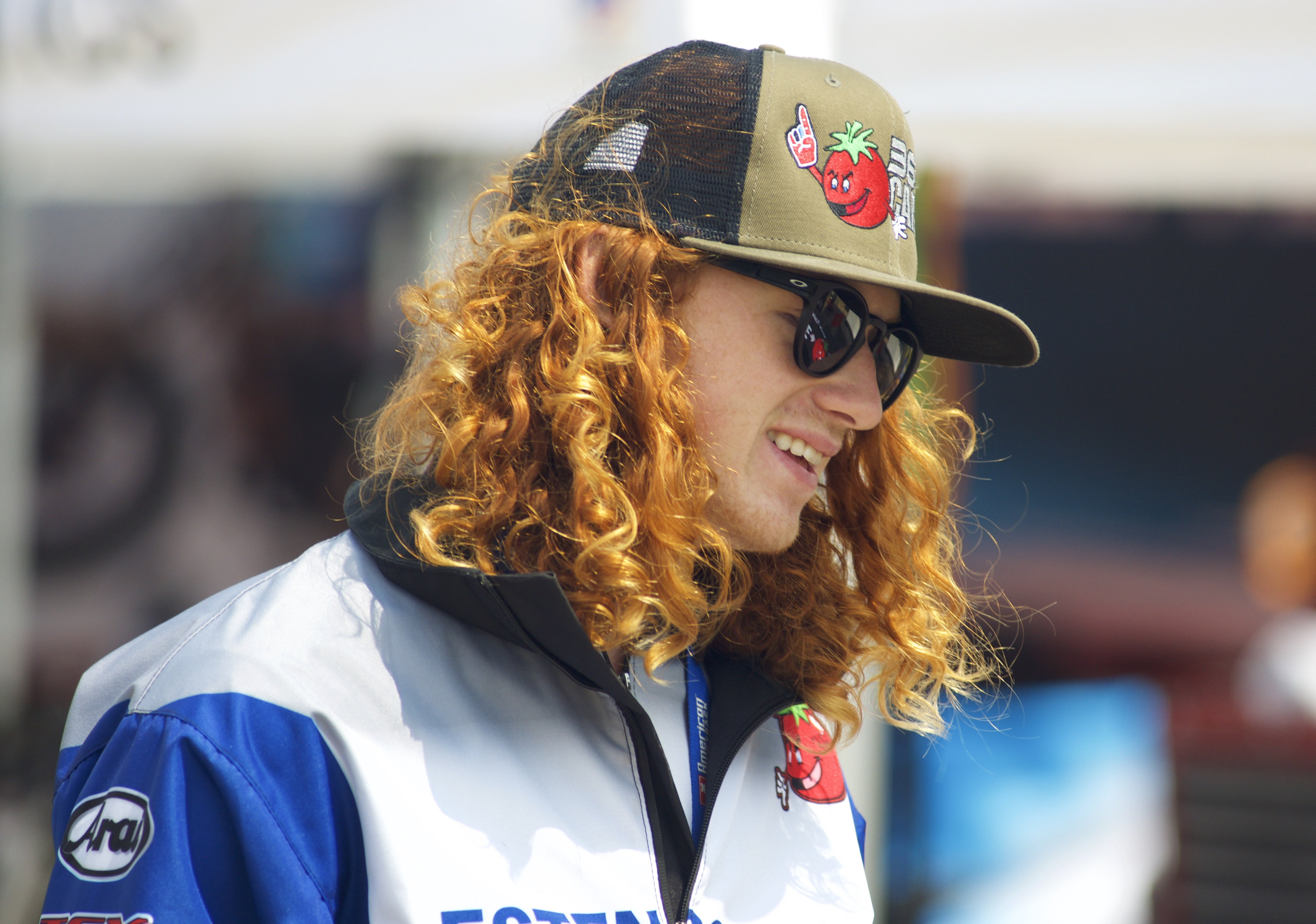 Kolby Carlile at the Sturgis TT, August 6, 2017